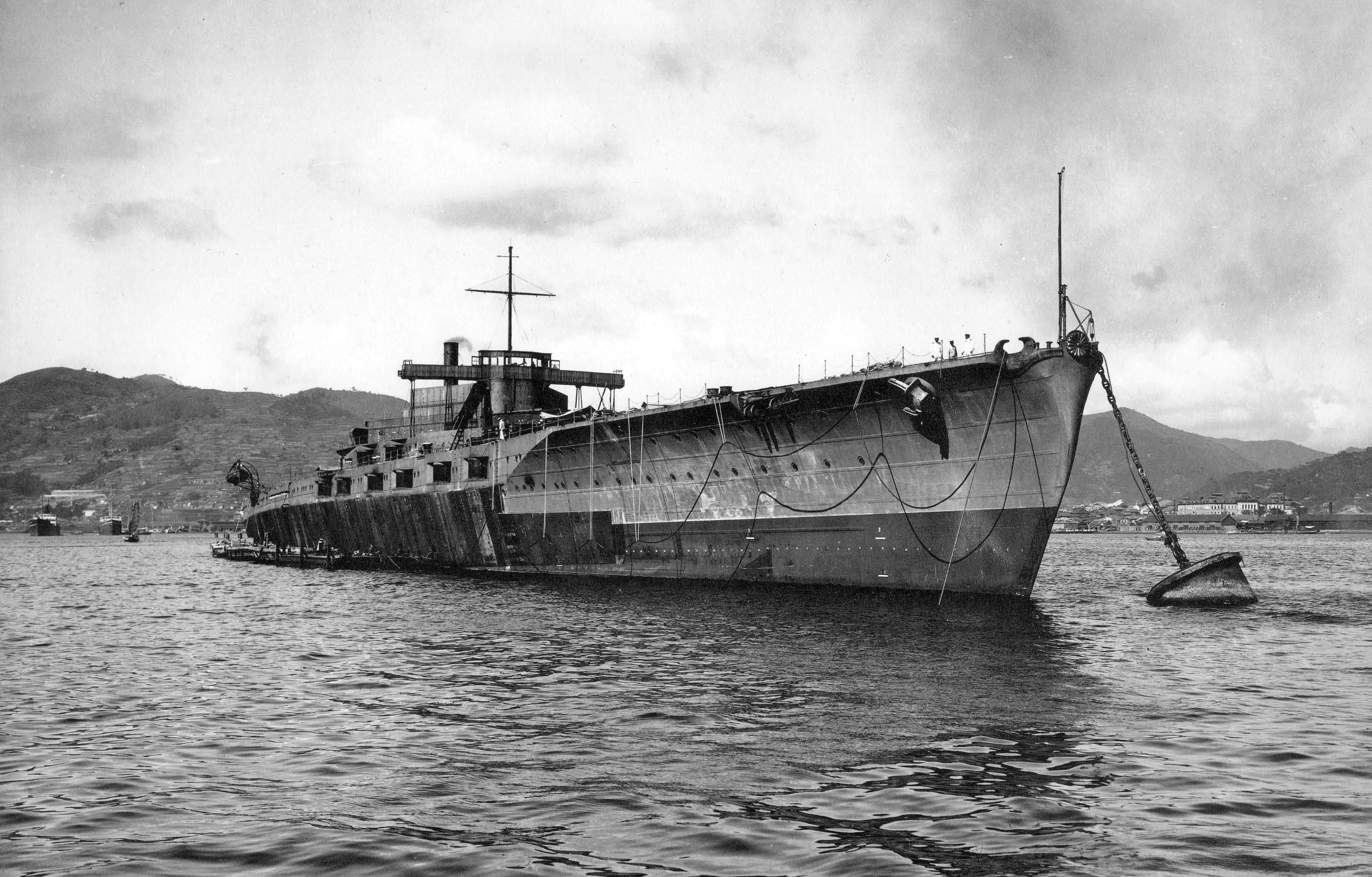 Imperial Japanese Navy battleship Tosa at Nagasaki, Japan after construction was halted under the terms of the Washington Naval Treaty.